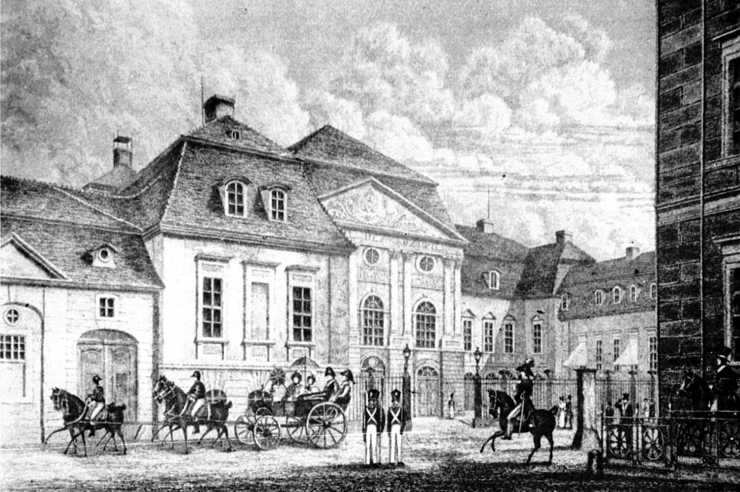 Berlin - Palais Schulenburg or Palais Radziwill, later Reichskanzlerpalais at Wilhelmstraße 77 around 1830